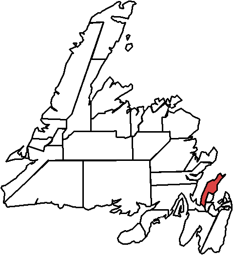 Map of Newfoundland and Labrador electoral district